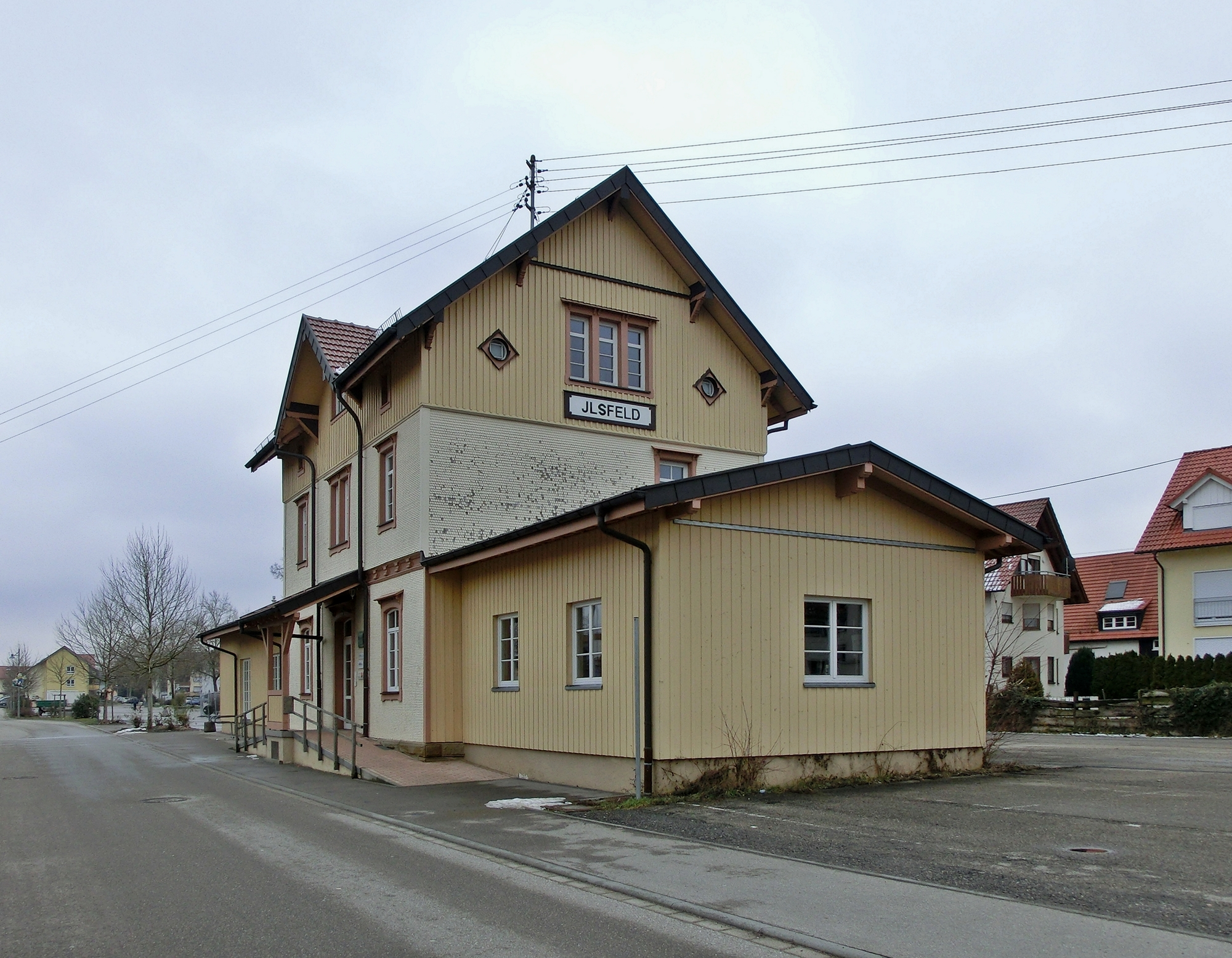 The former train station of Ilsfeld, Baden-Württemberg.